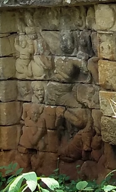 Devunigutta Temple In Kottur Village, Mulugu Mandal, Jayashankar Bhupalapally District, Telangana State